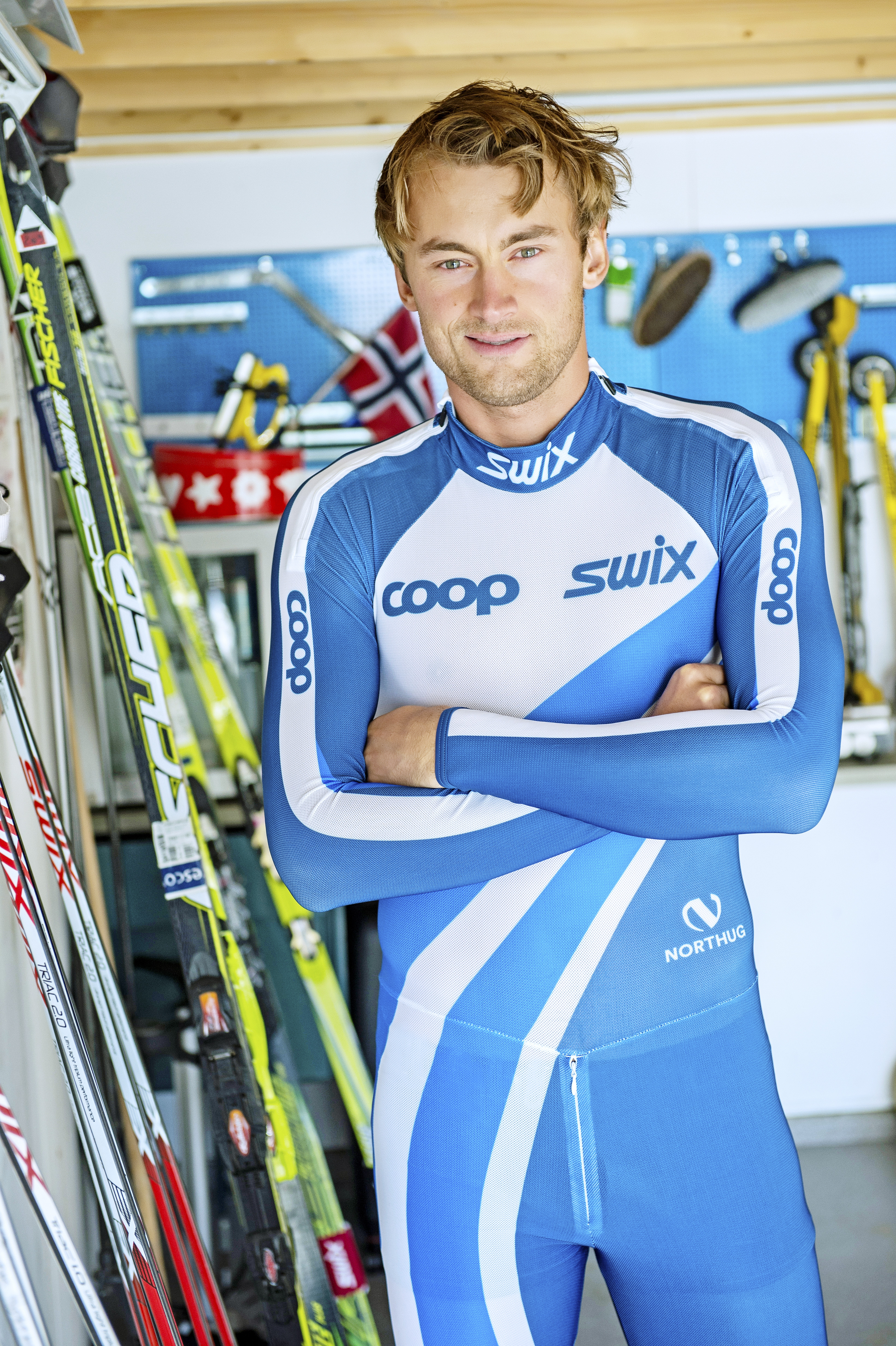 Norwegian cross-country skier Petter Northug.